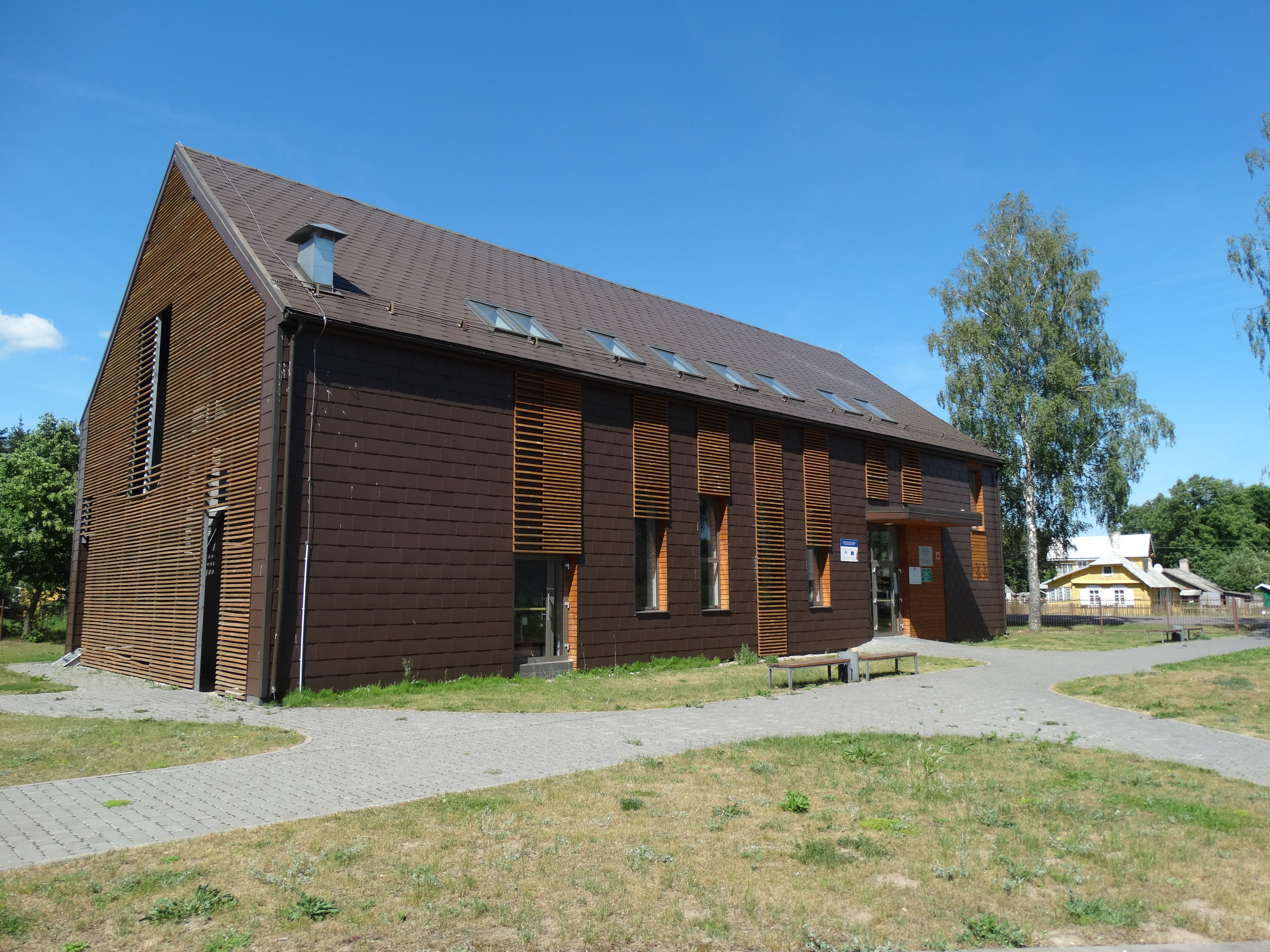 Community house, Buivydžiai, Vilnius District, Lithuania